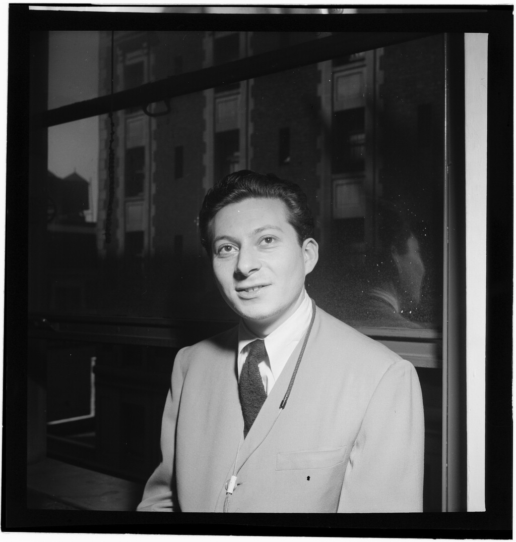 Portrait of Frank Socolow, New York, N.Y